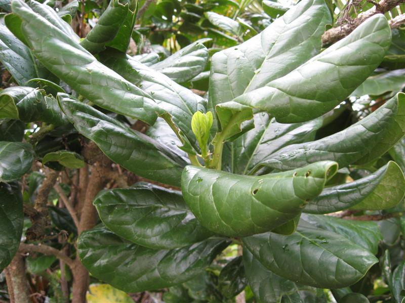 Pennantia Baylisiana in August.